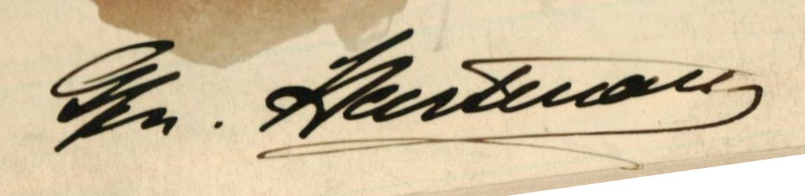 Signature of Johanna Loisinger. Graz, Austria-Hungary, around 1894